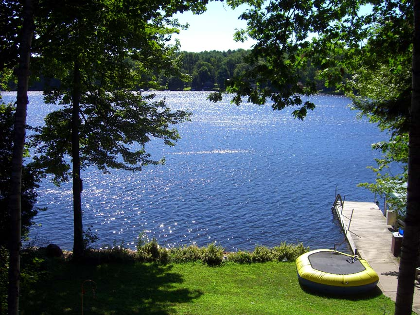 Picture of Messalonskee Lake's northern-most bay in summer.